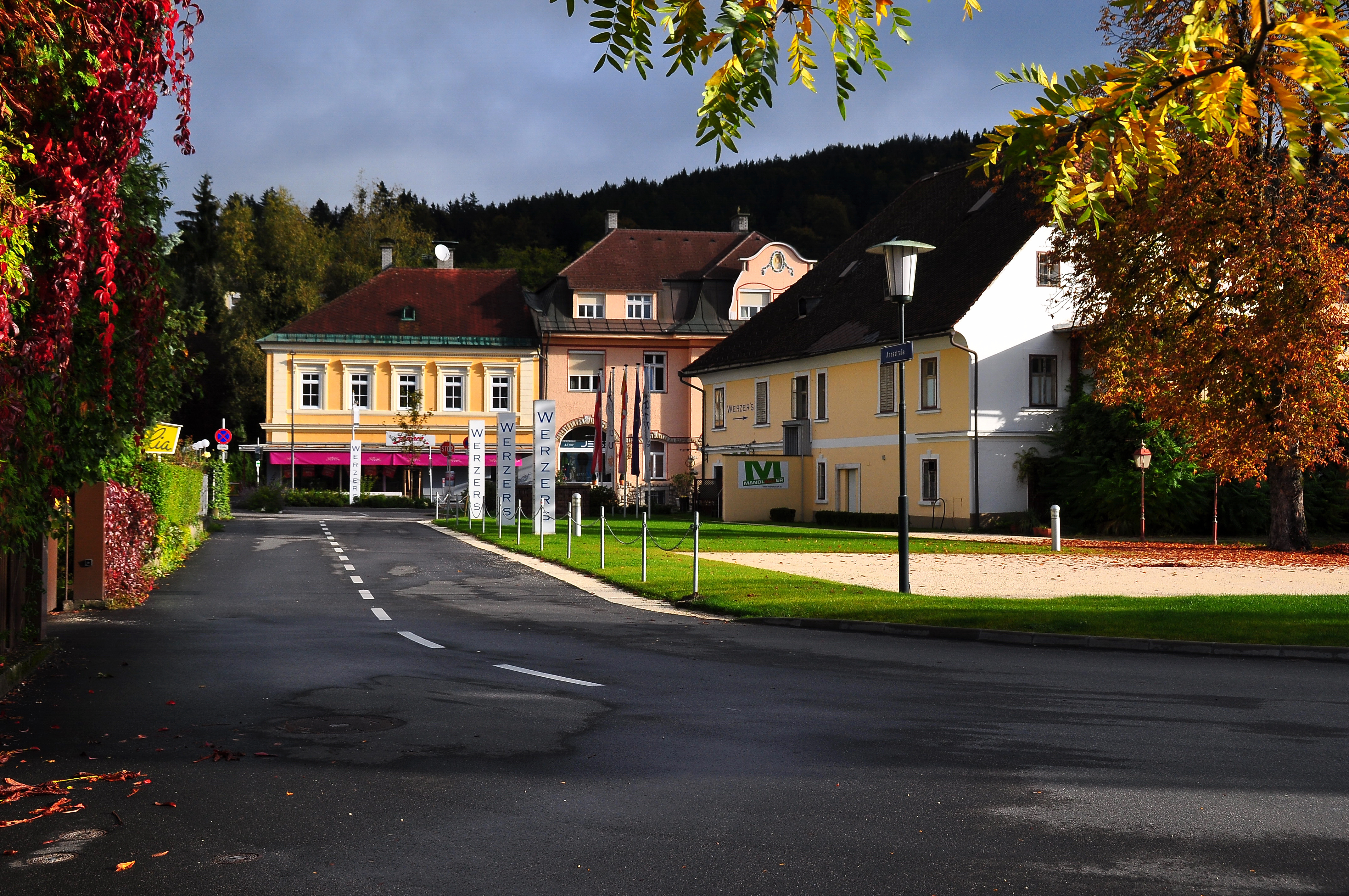 View from Annastrasse at the yellow building on the main street #220, on the right hand the “Weisse Roessl”, municipality Poertschach on the Lake Woerth, district Klagenfurt Land, Carinthia, Austria, EU